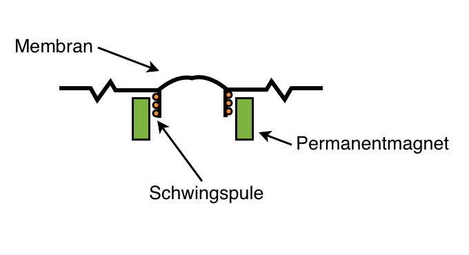 Schematic cross-sectional view of a moving-coil driven headphone speaker